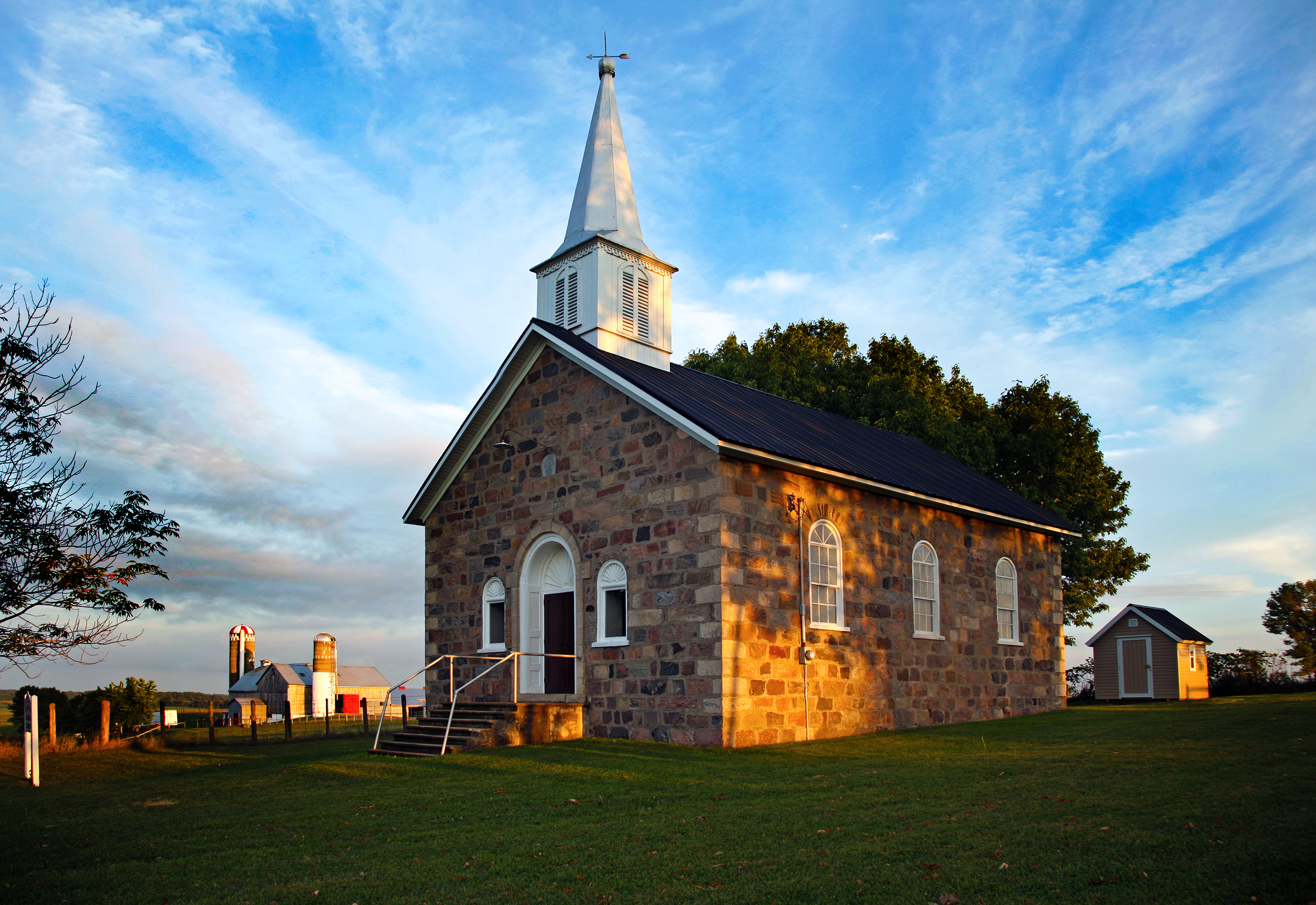 The church is representative of the neo-classical revival style of architecture with a coursed fieldstone exterior and cut limestone quoins. Built in 1872 for early German settlers to the area. It has an engraved dedication stone, "Duetsche ev. Luth./St. Johannes/Kirche/1872"